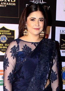 Meher Vij graces the Lions Gold Awards 2018.